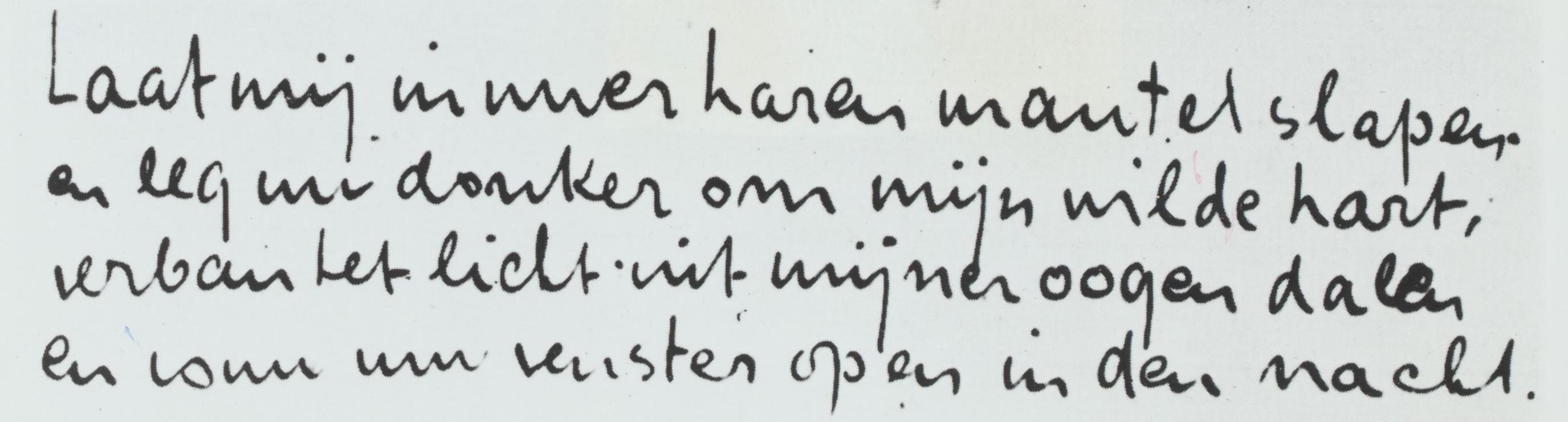 Fotografische reproductie van versregels geschreven door Hendrik Marsman (1899-1940) aangaande de eerste strofen van het gedicht "Invocatio".